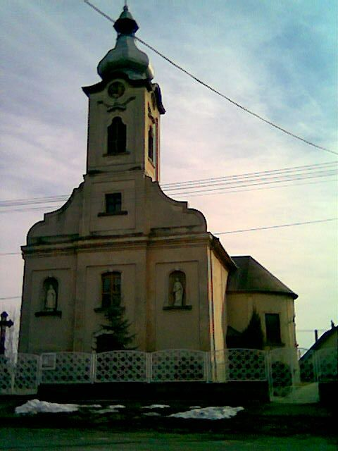 Kiskunlacháza - "Pereg's" Roman Catholic Church (1774) (photo by N3220 phone) —VillanyGabi 15:04, 25 February 2006 (UTC)